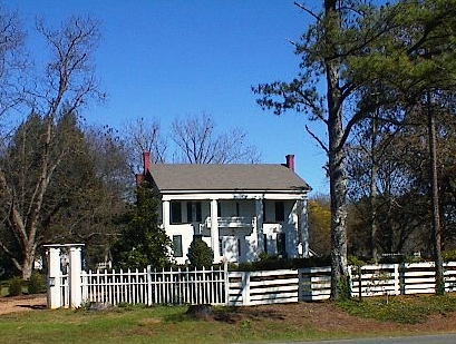 Everhope Plantation between Clinton and Eutaw on Alabama State Route 14 in Greene County, Alabama.